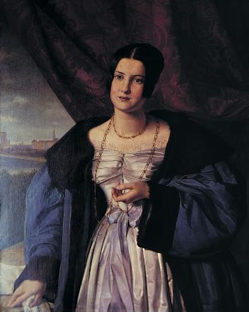 Grand Duchess Elizabeth Mikhailovna of Russia